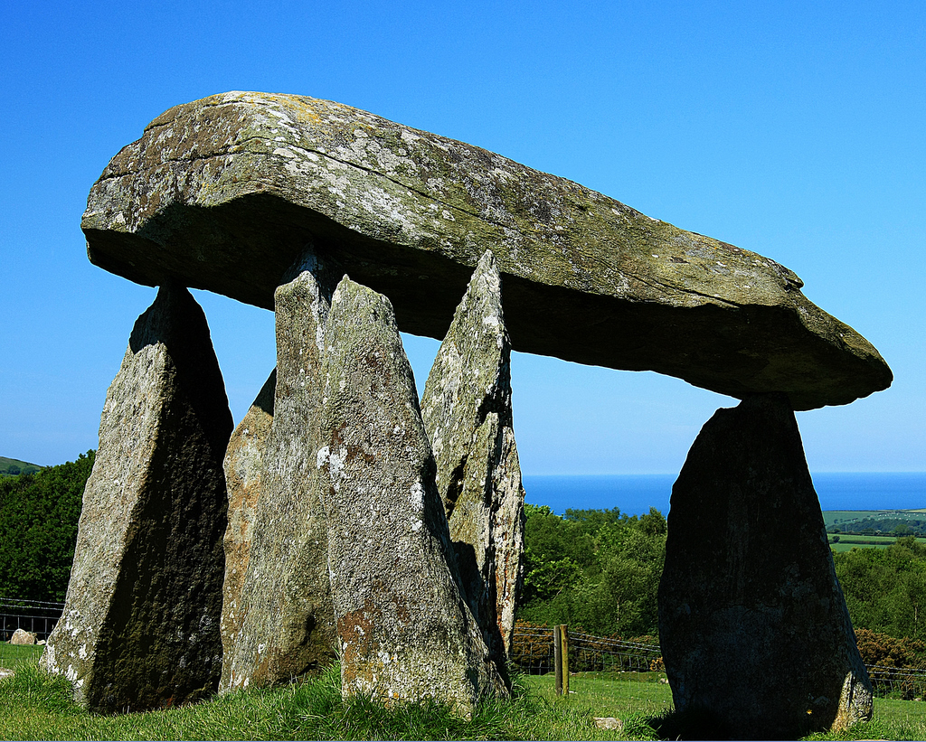 The cromlech stands in a beautiful position on a slope of the Preseli Hills near to Newport, Pembrokeshire, Wales.